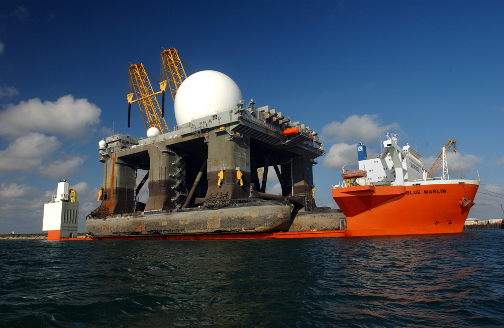 Gulf of Mexico (Nov. 14, 2005) – The Sea Based X-Band Radar (SBX) is slowly loaded onto the heavy lift vessel MV Blue Marlin as the ship semi-submerges in the Gulf of Mexico. SBX will provide missile tracking, discrimination and hit assessment functions to the Ground-based Midcourse Defense element of the Ballistic Missile Defense System. It will support interceptor missiles located in Alaska and California if required to defend against a limited long-range missile attack on the United States. Home-ported in Adak, Alaska, the SBX can move throughout the Pacific Ocean in support of advanced missile defense testing and defensive operations. U.S. Department of Defense photo (RELEASED) Information about Blue Marlin may be found at IMO 9186338. A ship can change name and flag state through time, but the IMO number remains the same through the hull's entire lifetime. As a result, it can be useful to identify a ship by using the IMO number.